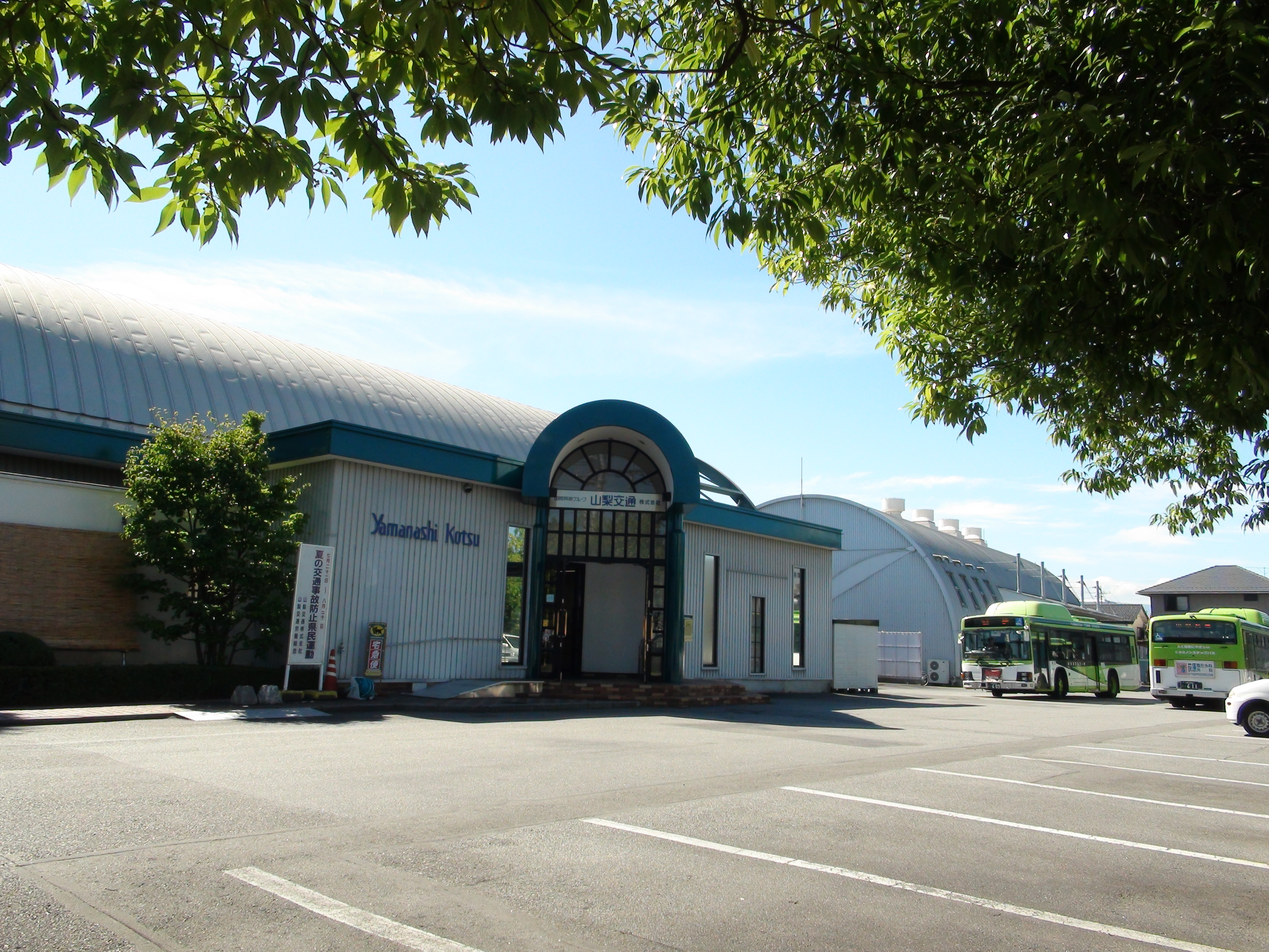 Yamanashi-Kotsu Co., Ltd. Head Office Kofu-City